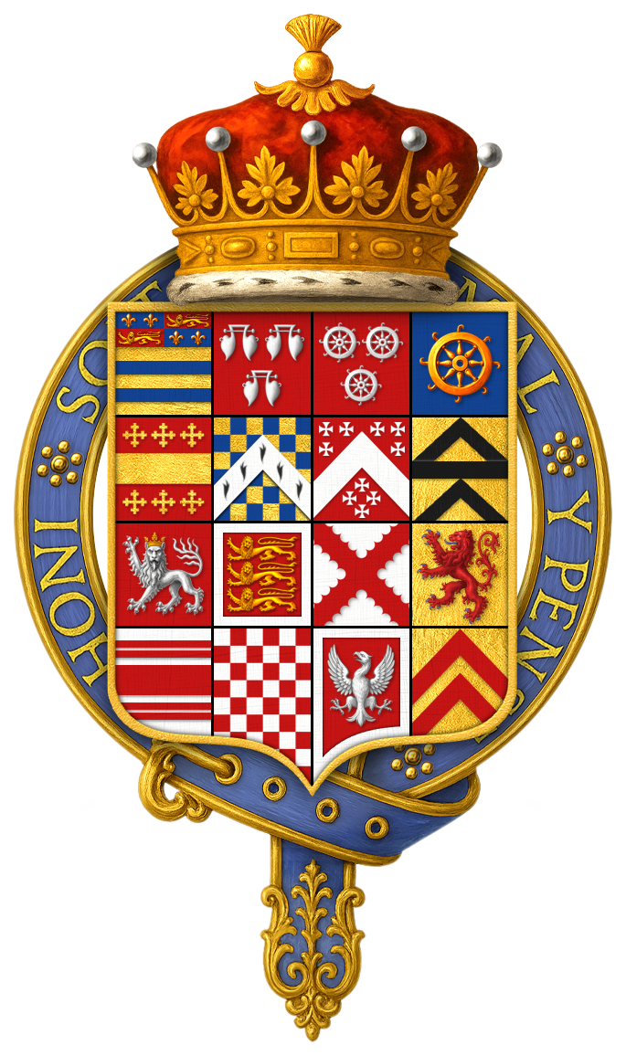 Quartered arms of Sir Edward Manners, 3rd Earl of Rutland, KG Quarterings based on the Rutland memorials at Bottesford